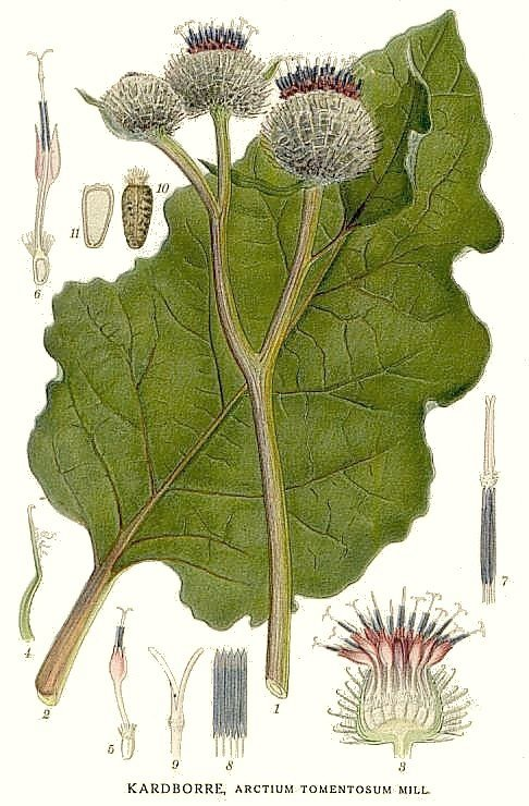 Original Description Kardborre, Arctium tomentosum Mill.